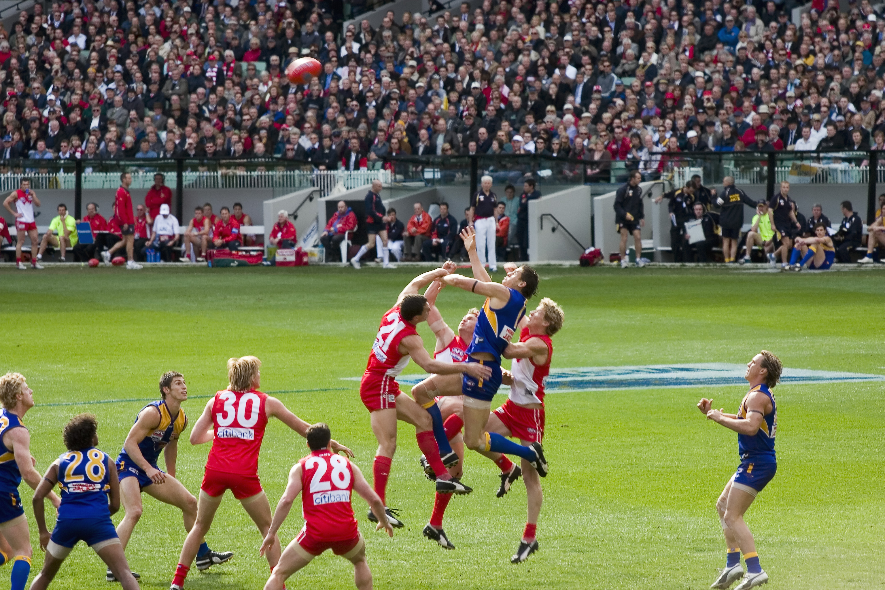 Action shot of the 2005 AFL Grand Final